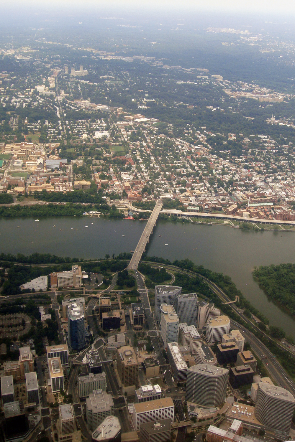 Aerial view of Rosslyn, Francis Scott Key Bridge, and Georgetown, Washington, D.C.